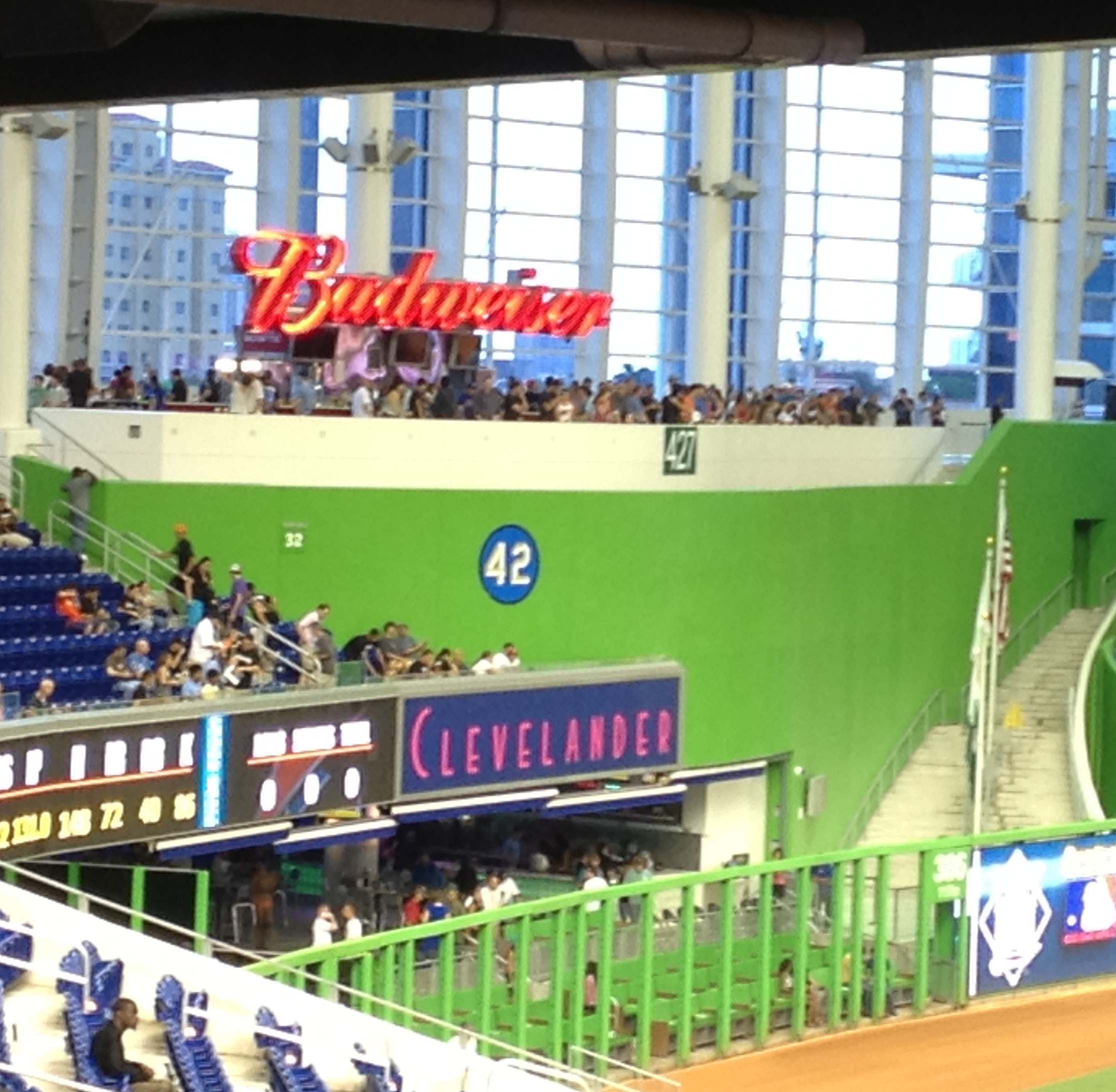 A view of Marlins Park LF section during a baseball game between the Los Angeles Dodgers and the Miami Marlins